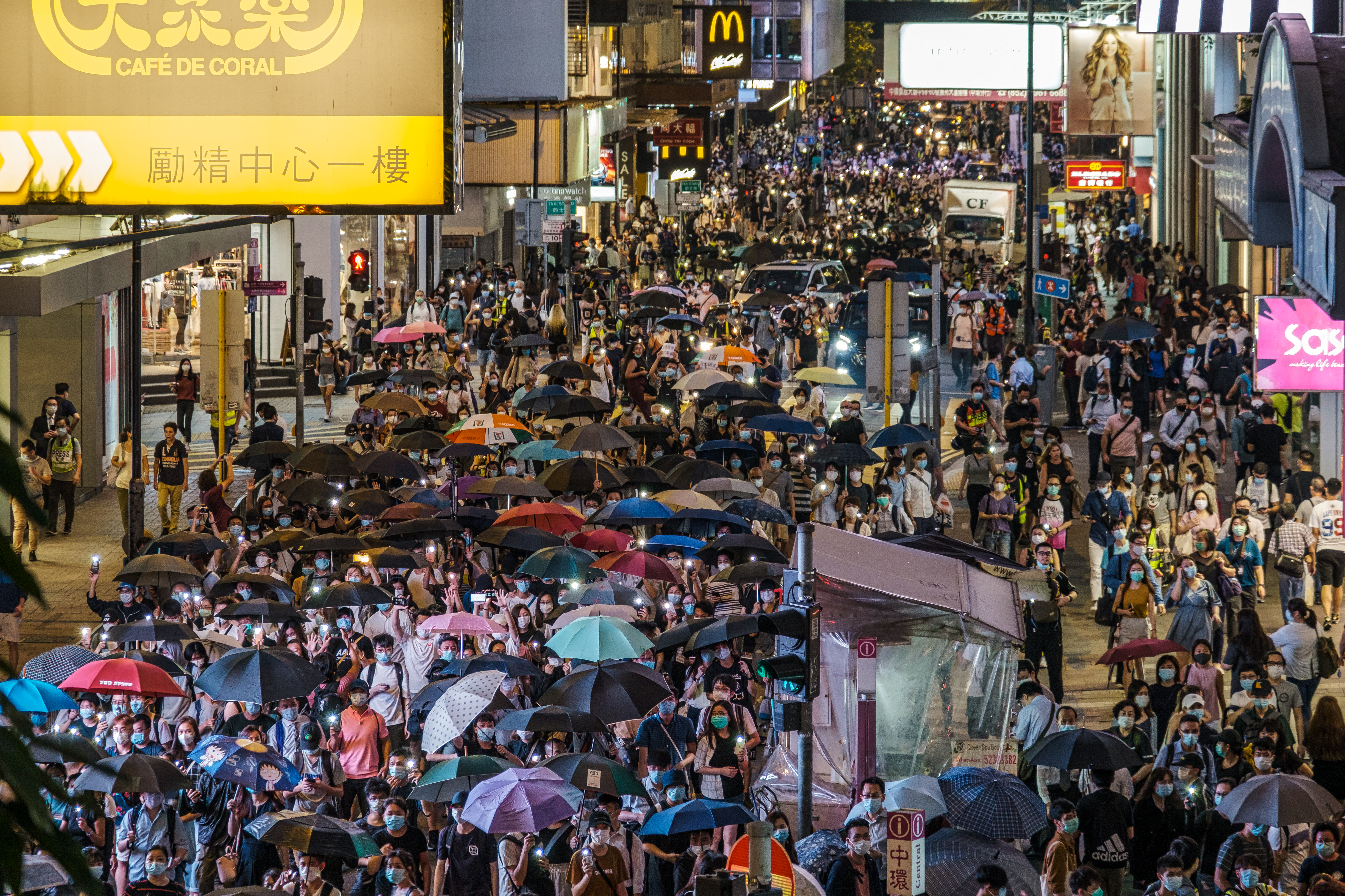 One-year anniversary demonstration against the 2019 Hong Kong extradition bill on June 9, 2020